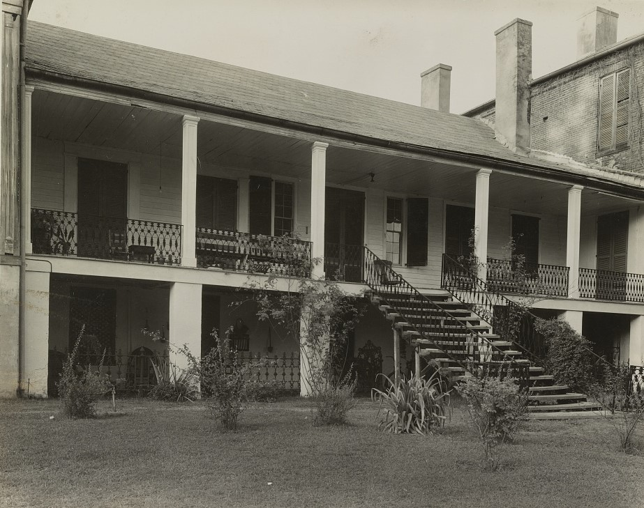 Title Richmond, Natchez, Adams County, Mississippi Contributor Names Johnston, Frances Benjamin, 1864-1952, photographer Created / Published 1938. Subject Headings - United States--Mississippi--Adams County--Natchez - Railings. - Stairways. - Porticoes (Porches). - Wings (Building divisions). - Houses. - Mississippi--Adams County--Natchez Format Headings Photographic prints. Notes - Title from photographer's inventory. - Central portion is oldest, of provincial Spanish workmanship. Rear portion is two story 18th century brick. Front is classic portico and columns. Marshall family have owned it for over 100 years. - Building/structure dates: ca. 1790. - Corresponding Carnegie Survey of the Architecture of the South neg. no. 1066. Library has no record of having this neg. - Related names: Marshall descendants. - Gift; Anne E. Peterson; 2011; (DLC/PP-2011:206) - Forms part of: Carnegie Survey of the Architecture of the South (Library of Congress). Medium 1 photographic print. Call Number/Physical Location LOT 11838-1 [item] [P&P] Repository Library of Congress Prints and Photographs Division Washington, D.C. 20540 USA Digital Id ppmsca 32374 //hdl.loc.gov/loc.pnp/ppmsca.32374 Control Number csas201207202 Reproduction Number LC-DIG-ppmsca-32374 (digital file from photograph) Rights Advisory No known restrictions on publication. Online Format image Description 1 photographic print.